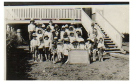 Maxwelton State School Teacher and Pupils - date unknown